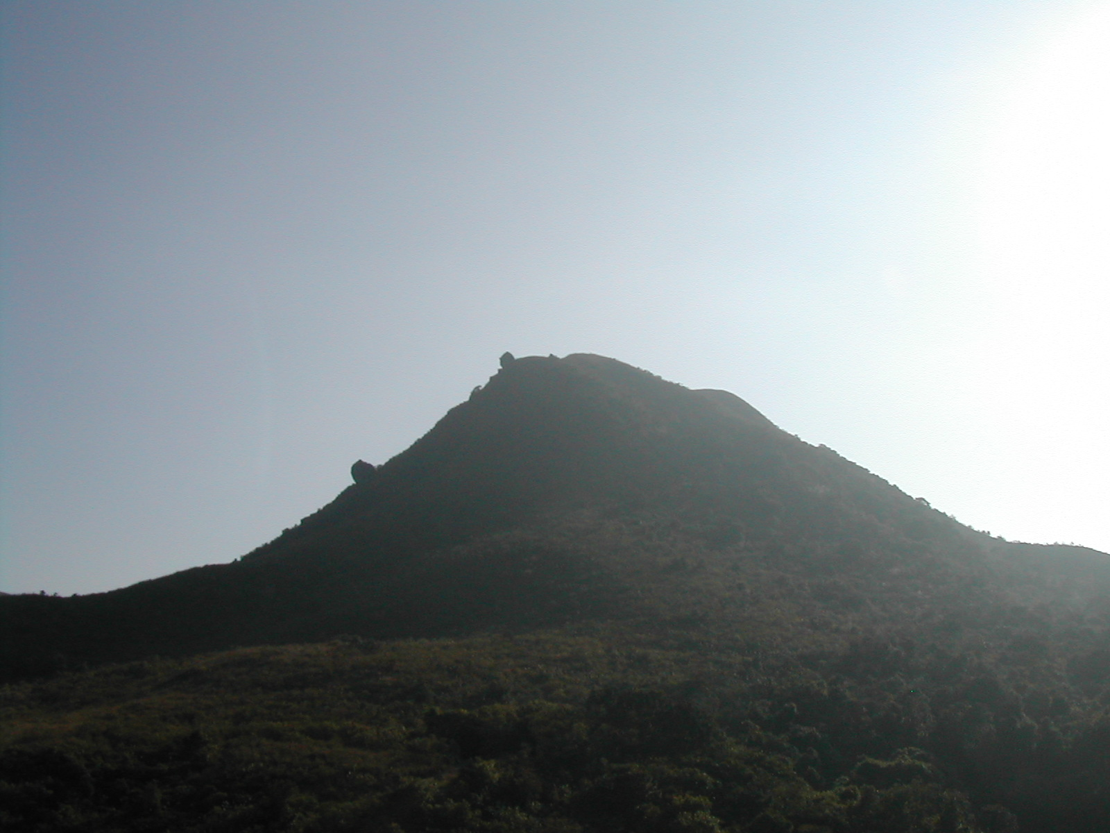 Lui Ta Shek